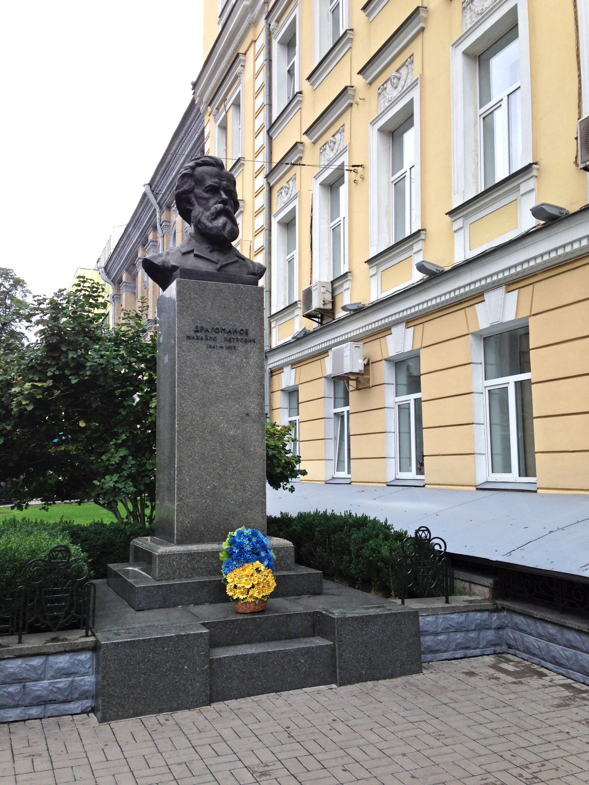 Bust in front of the university named after Dragomanov in Kiev, Ukraine